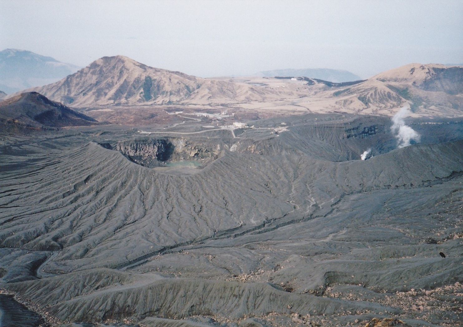 Mount Aso west Volcanic crater from Mount Naka, in Kumamoto pref., Japan.